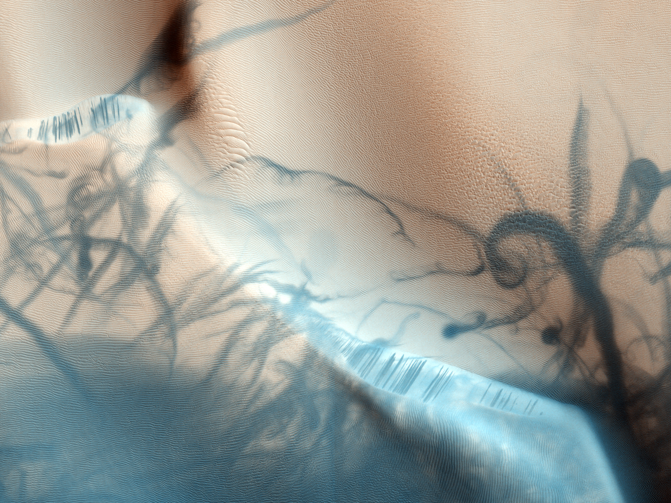 This portion of a recent high-resolution picture from the HiRISE camera on board the Mars Reconnaissance Orbiter shows twisting dark trails criss-crossing light coloured terrain on the Martian surface. Newly formed trails like these had presented researchers with a tantalizing Martian mystery but are now known to be the work of miniature wind vortices known to occur on the red planet - Martian dust devils. Such spinning columns of rising air heated by the warm surface are also common in dry and desert areas on planet Earth. Typically lasting only a few minutes, dust devils becoming visible as they pick up loose red-coloured dust leaving the darker and heavier sand beneath intact. On Mars, dust devils can be up to 8 kilometres high. Dust devils have been credited with unexpected cleanings of Mars rover solar panels.